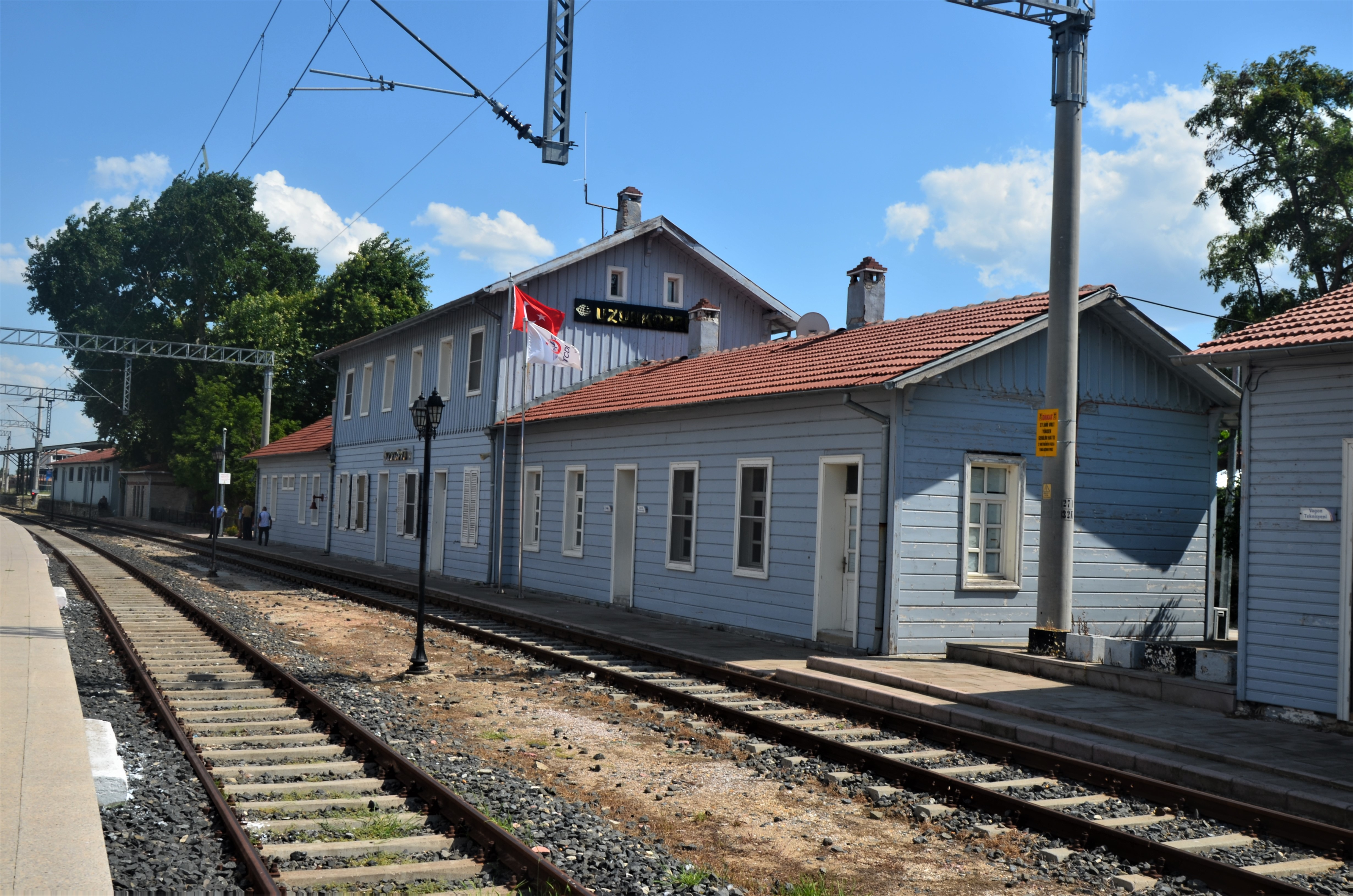 Uzunköprü train station in Edirne Province, Turkey